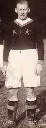 Sven Lindqvist, swedish footballer who won a bronze medal at the Olympic Games in Paris 1924. Picture from around 1925.